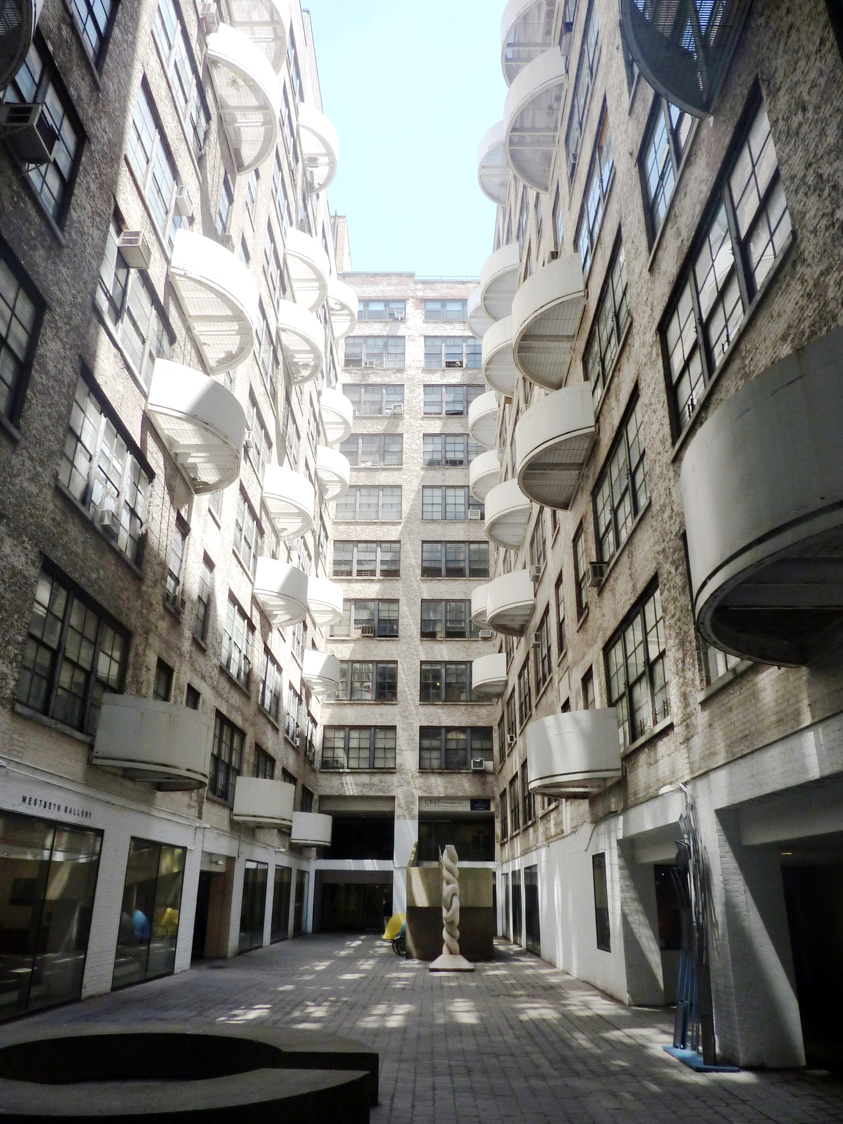 Westbeth, 55 Bethune Street New York